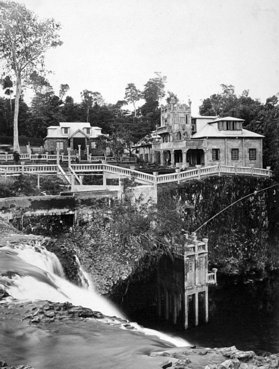 Paronella Park from the top of Mena Creek Falls, Innisfail. (Paronella Park, Mena Creek Falls and Mena Creek Environmental Park, Mena Creek-Jappoon Road, Mena Creek.)